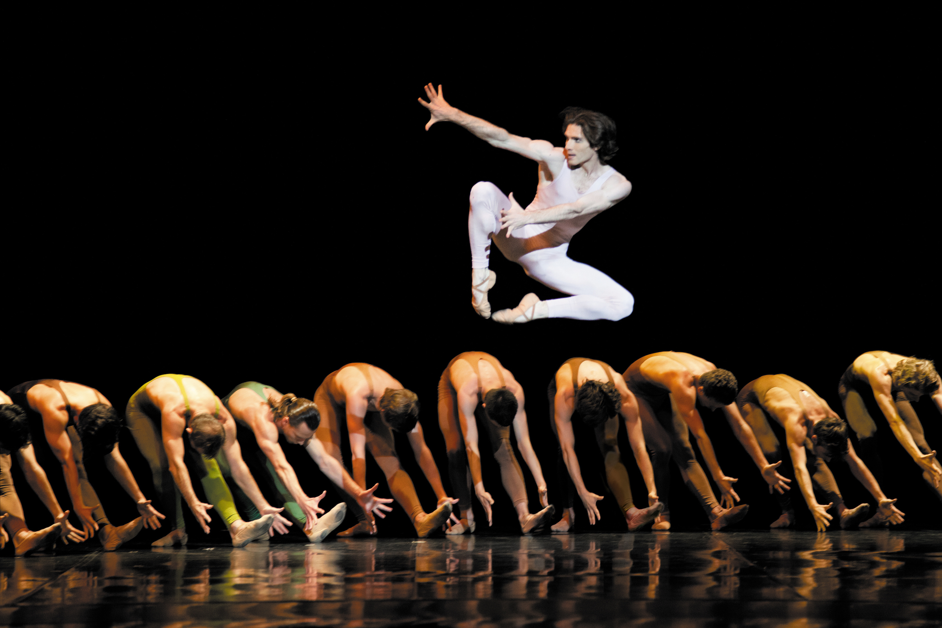 Vladimir Yaroshenko (the Chosen Man), "Le Sacre du printemps" by Maurice Béjart, Polish National Ballet